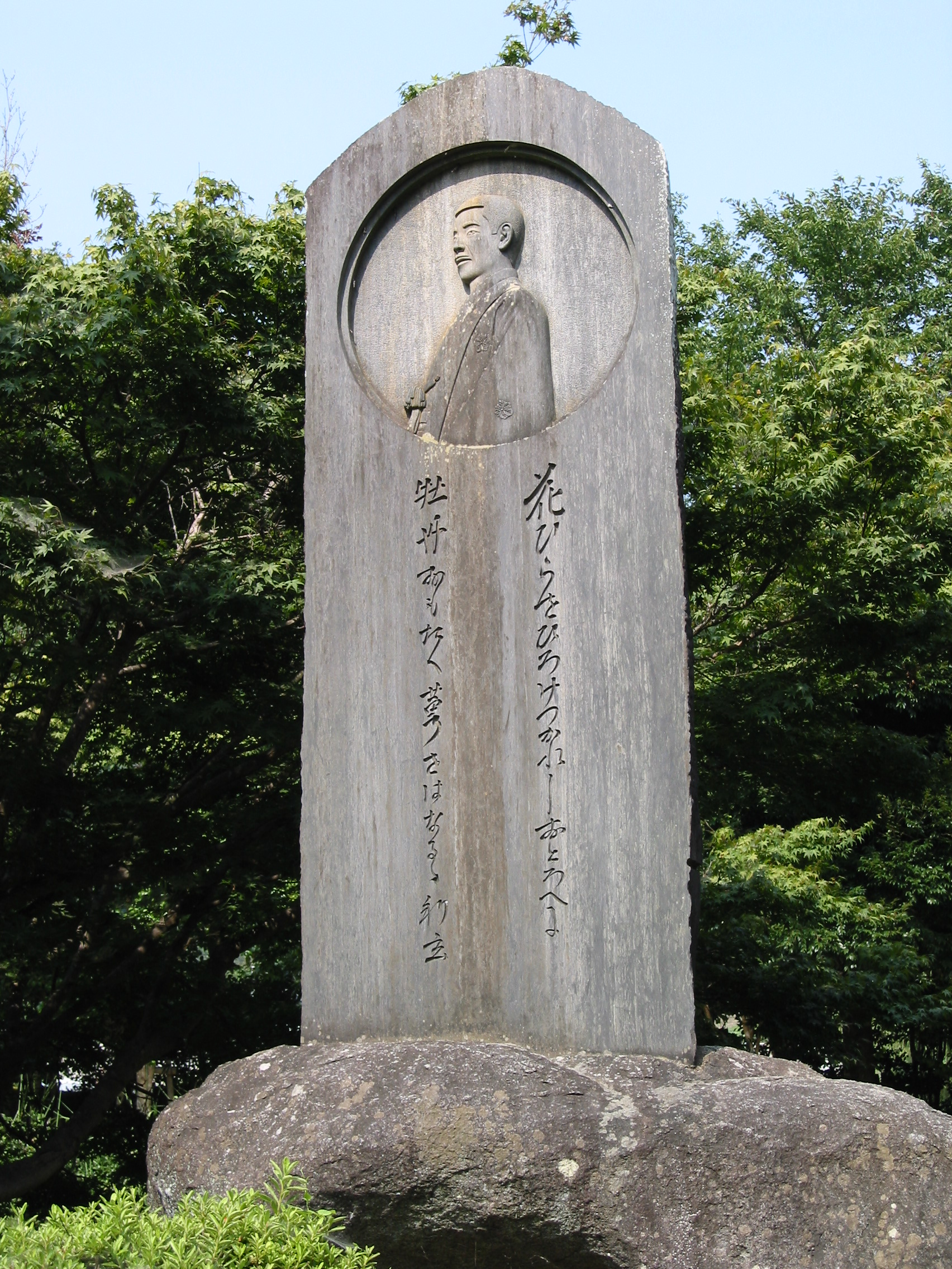 tanka stone monument of Kinoshita Rigen (a tanka poet) in Omizuen, Ashimori, Kita-ku, Okayama, Japan